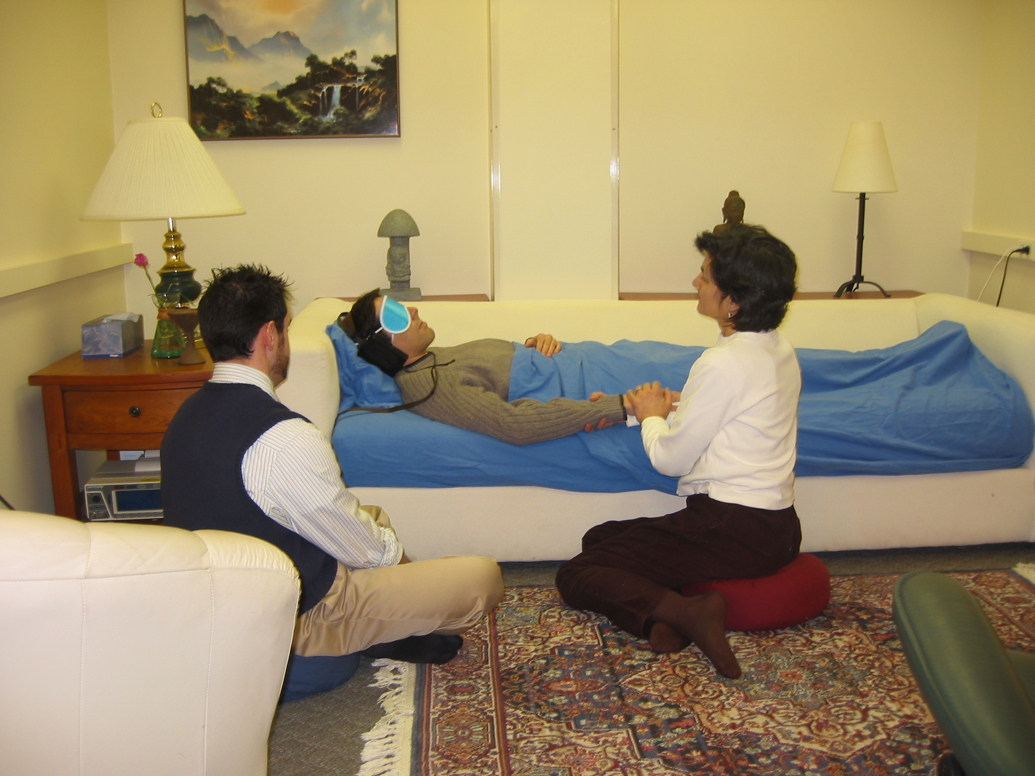 A photo of one of the comfortable rooms at Johns Hopkins University used in clinical studies to determine the effects of psilocybin and other hallucinogenic drugs. Two guides are monitoring the experiences of the subject, and provide reassurance when the volunteers experience anxiety.